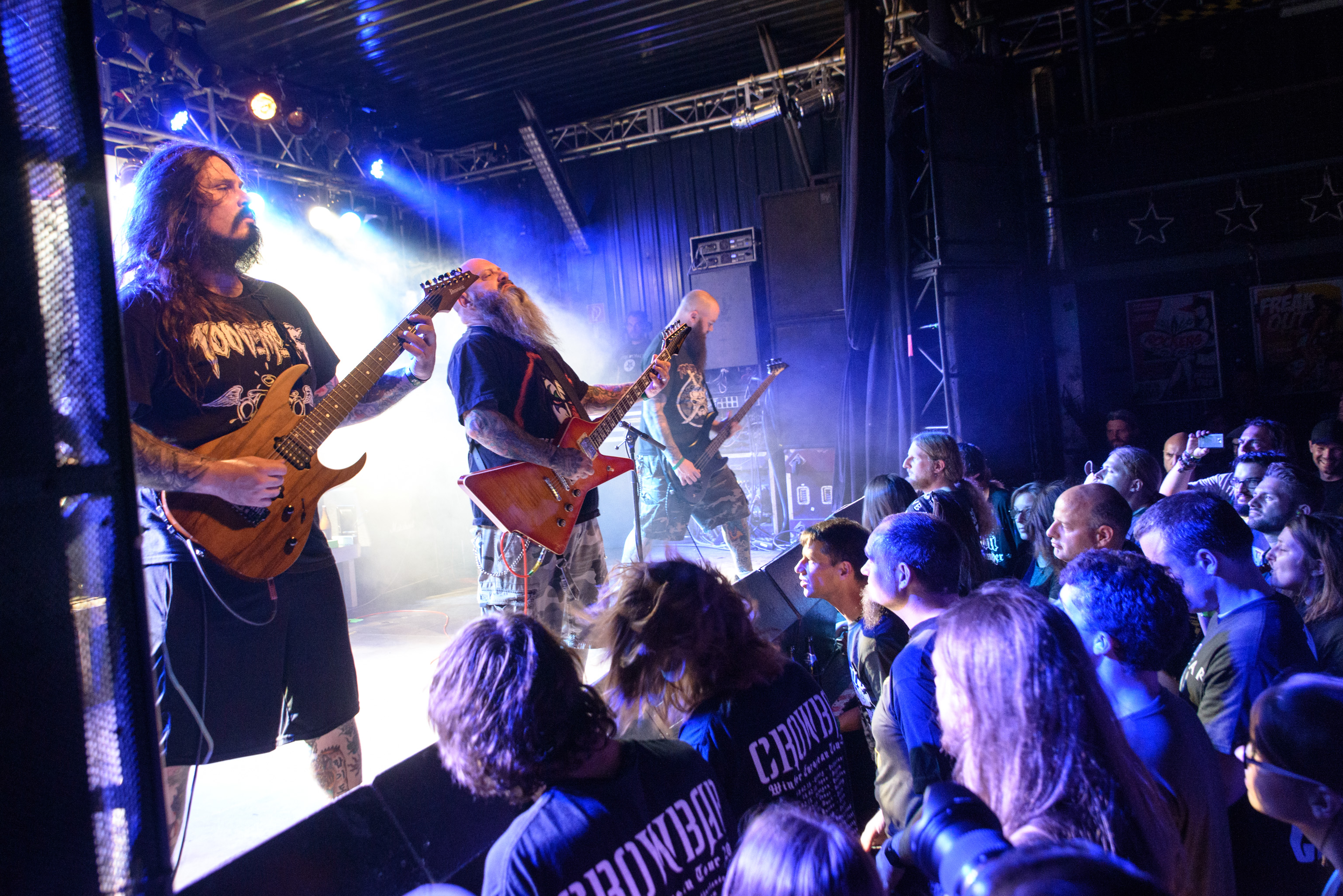 Crowbar Live @ Free & Easy Festival 2015